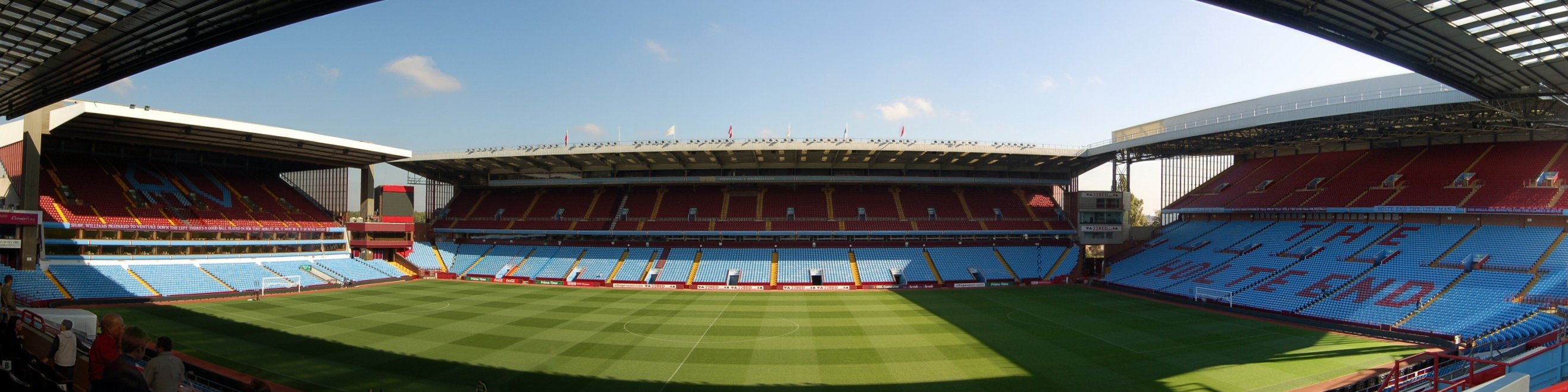 Panorama of Villa Park, Birmingham from the Trinity Road Stand.